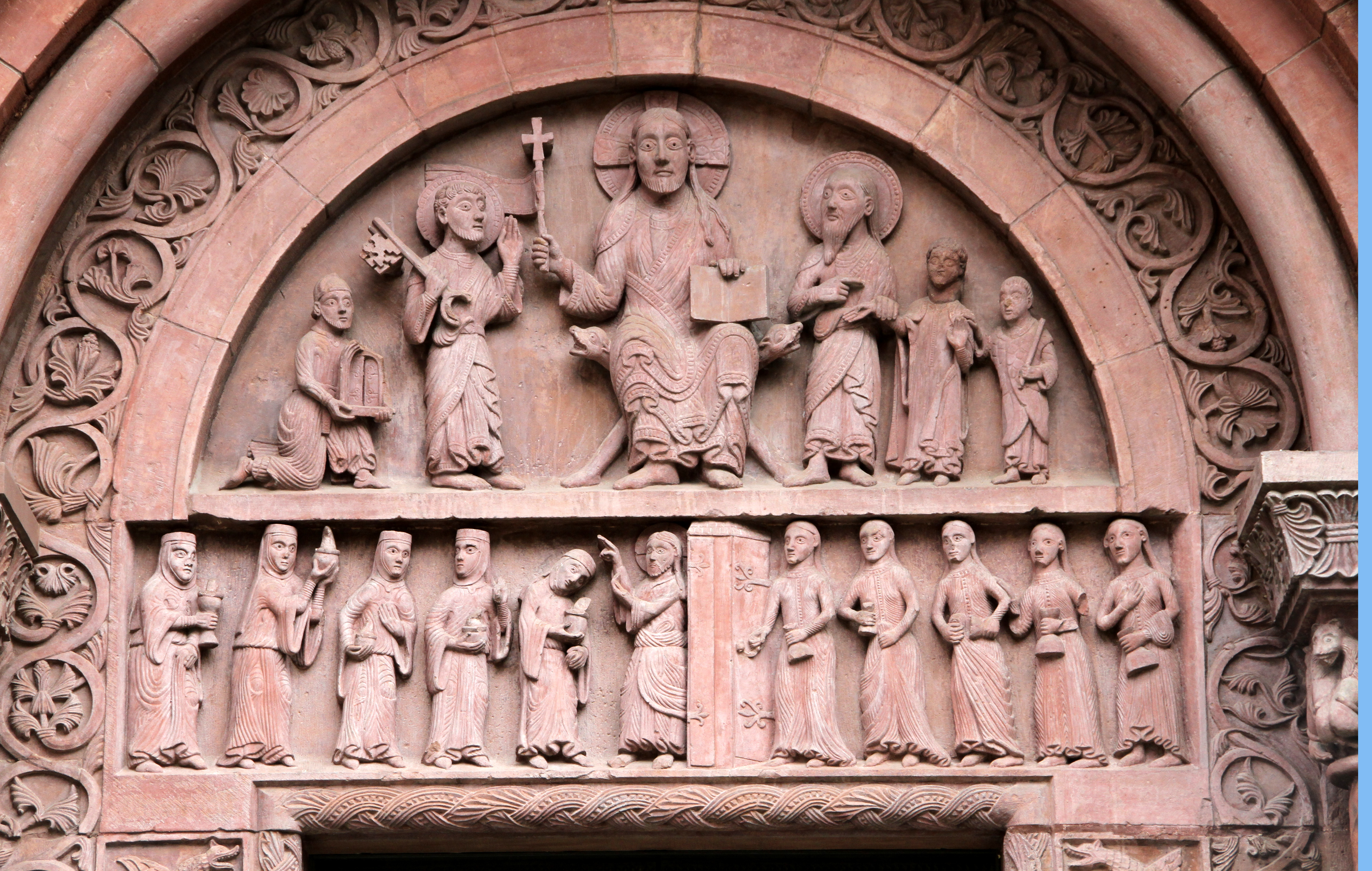 St. Gallus portal of Basel Minster.